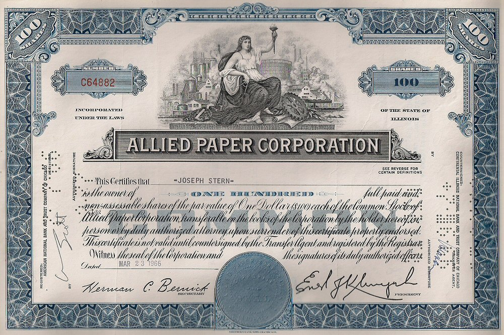 Example of an Allied Paper Corporation Stock Certificate. This corporation ceased to exist in 1967 so this certificate issued in 1966 is one of the last ones.